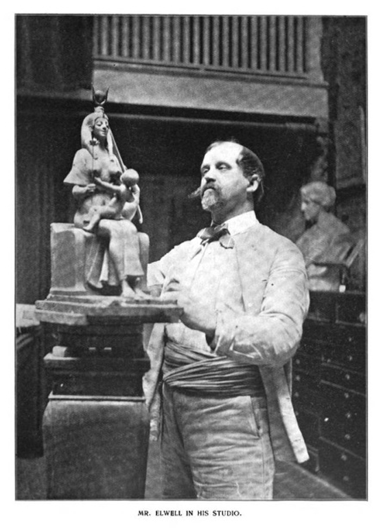 "Mr. Elwell in His Studio."